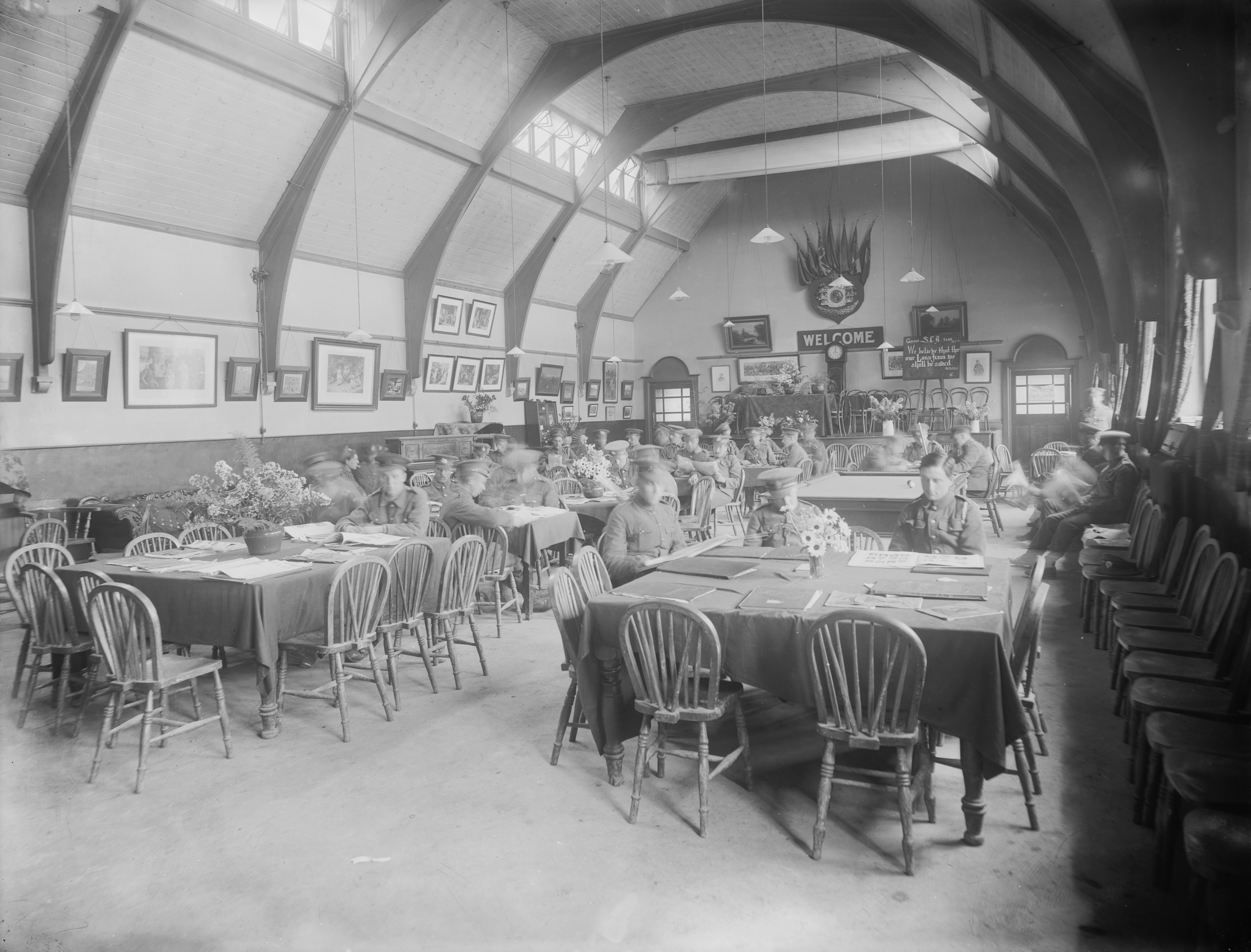 We managed to date this one because of the religious verse (Acts, XV.II: "We believe that thro' our Lord Jesus we shall be saved") on the blackboard. In the top right corner is 16.7.16 or 16 July 1916! Any ideas on "Golden S.C.A. Text" from the top of the blackboard gratefully accepted! Fascinating information has come to us from macabee2012 on this photo: "This is the Reading Room of Miss Sandes Soldiers Home in the Curragh Camp. Elise Sandes (1851-1934) from Tralee, Co Kerry founded this movement near army camps in Ireland, England and India. She was an evangelical missionary and her aim was to provide wholesome recreation for young soldiers to keep them away from pubs. There were over thirty homes at one stage, eight of them in India. Their only rule they said, was "welcome" as on the back wall. The Curragh Home was the headquarters from its foundation in 1911 and incredibly it stayed open until the 1970s, serving the Irish army. Some of the buildings around the country have survived but not the one in the Curragh. Irish soldiers remeber the Home with great affection and appreciation. The movement still survives today, in much reduced form, in Northern Ireland. for some history. And article in The Irish Sword of Summer 2007 for more info." macabee2012 also provided a link to History Ireland, vol. 13, issue 4, July/August 2005, where there's a great article by Bryan MacMahon, 'Endynamited by Christ', on Elise Sandes and her Homes in Ireland and all over the world... Date: Sunday, 16 July 1916 NLI Ref.: EAS_2484